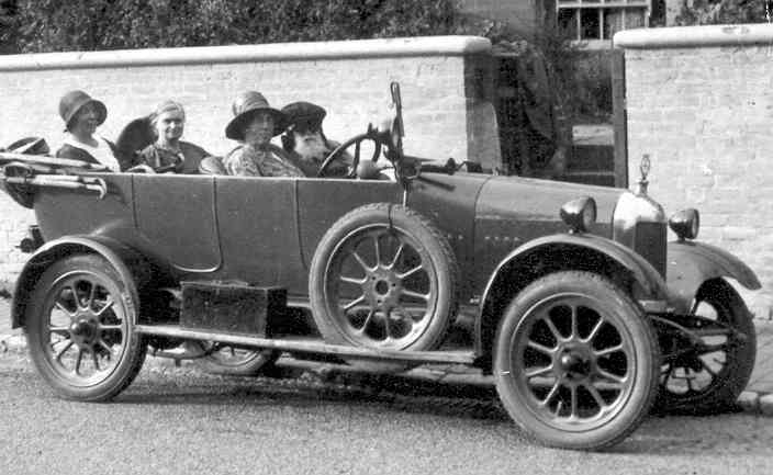 Dame Bertha Phillpotts in her car, 1930